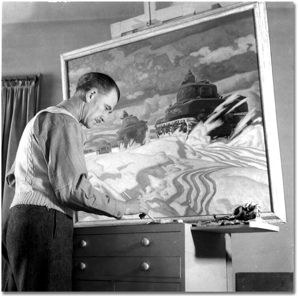 Alfred J. Casson, 1943, Ontario Society of Artists, Black and White Photography, Reference Code : F 1140-7-0-1, Archives of Ontario, I0010381